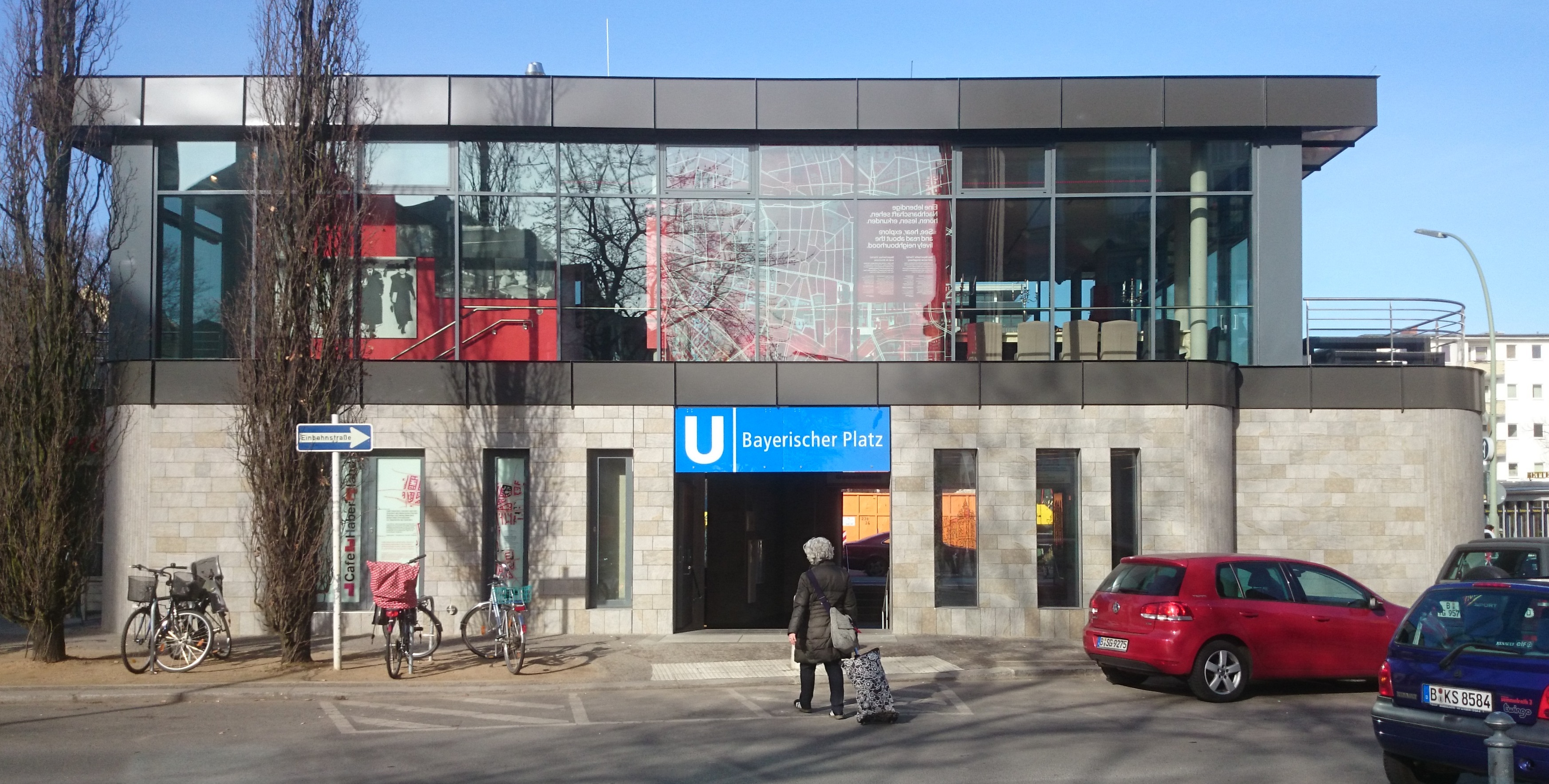 Berlin in late winter